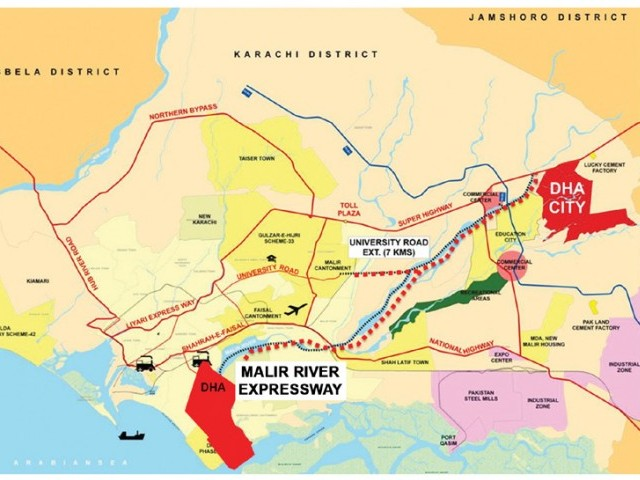 Malir Motorway